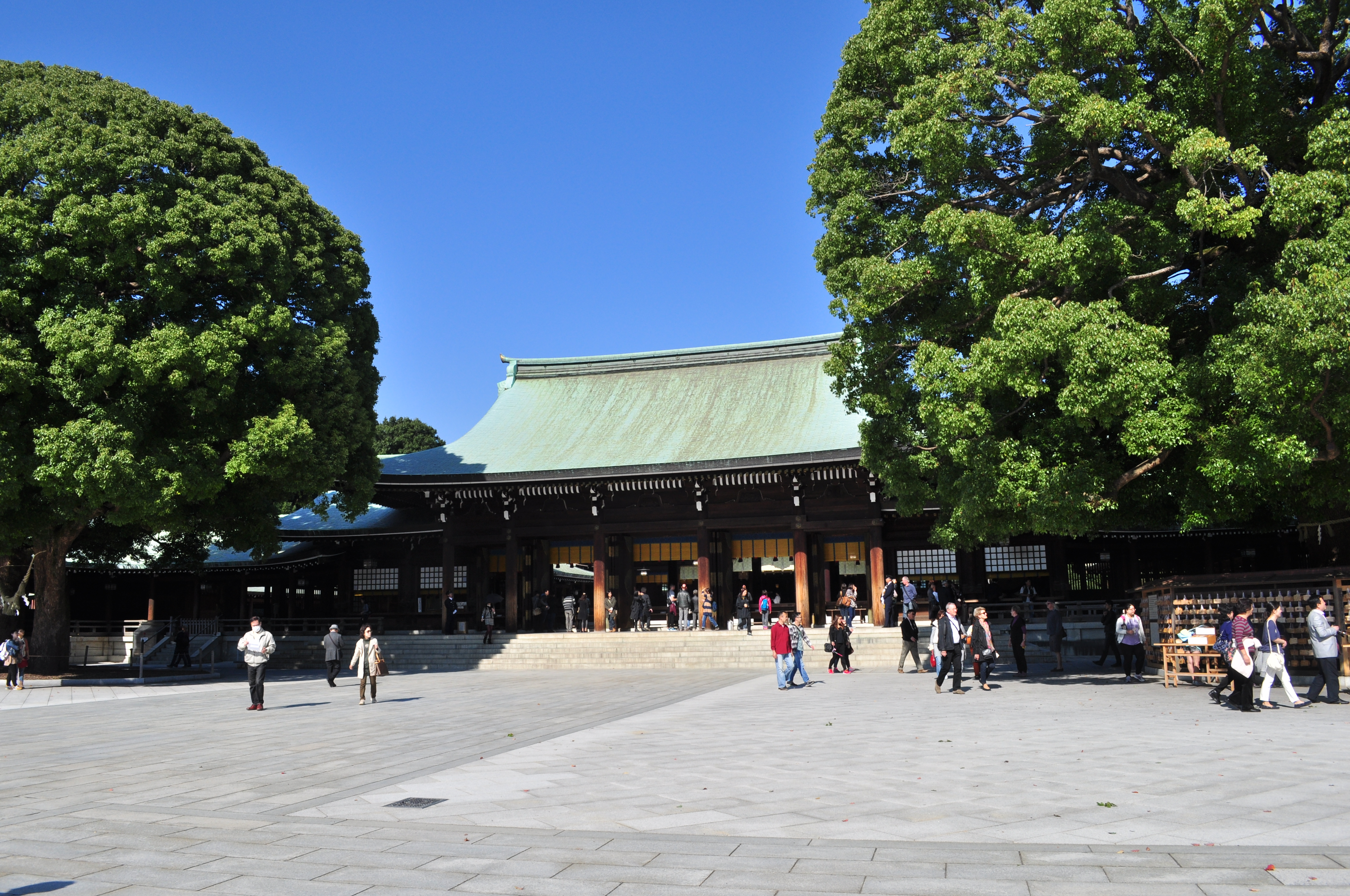 Meiji Shrine, Tokyo.